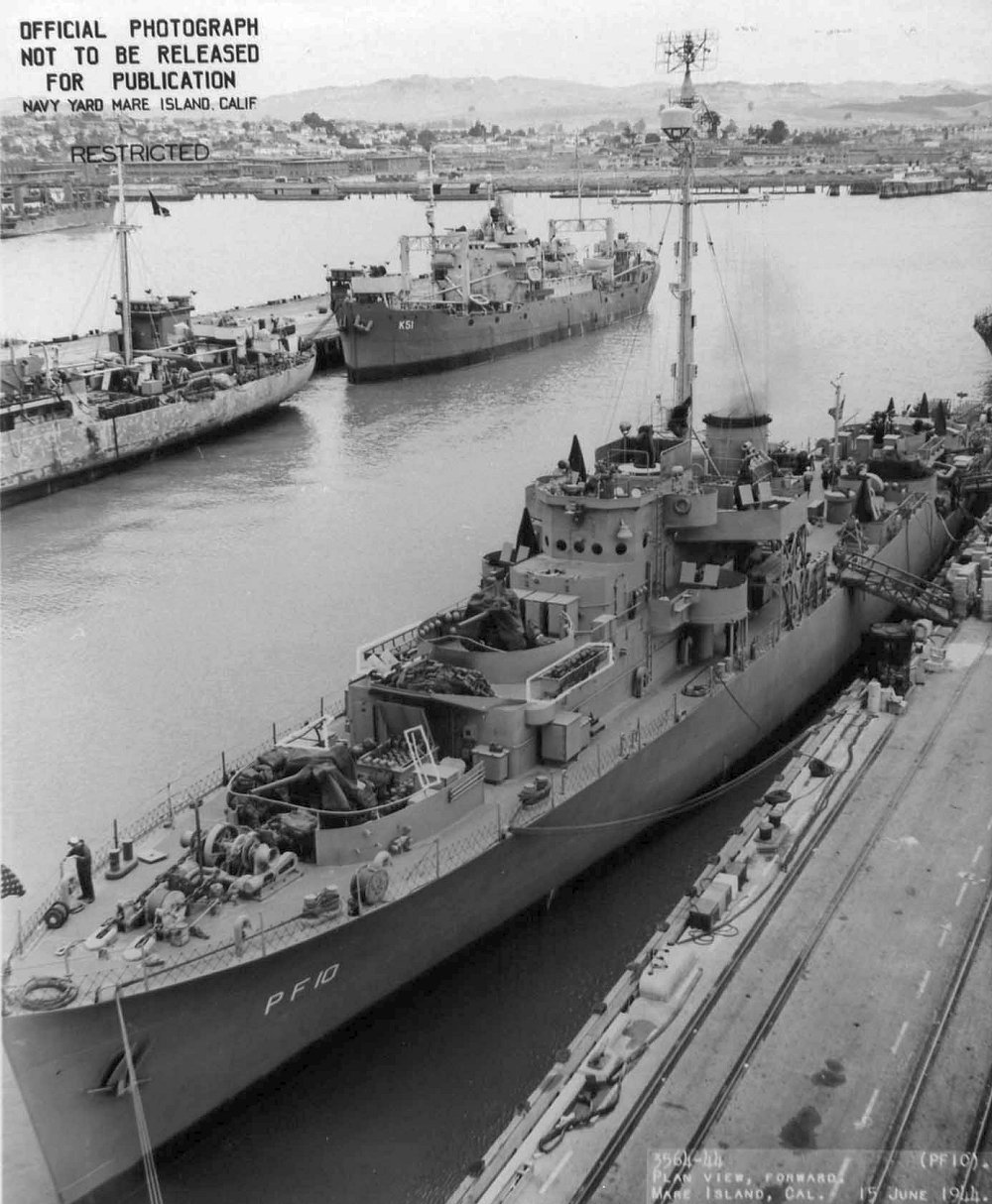 Forward plan view of Brownsville at Mare Island on 15 June 1944. In the background are the stern of the French Armed Merchant Cruiser Cap Des Palmes and USS Aries (AK 51) U.S. Navy photo 3564-44